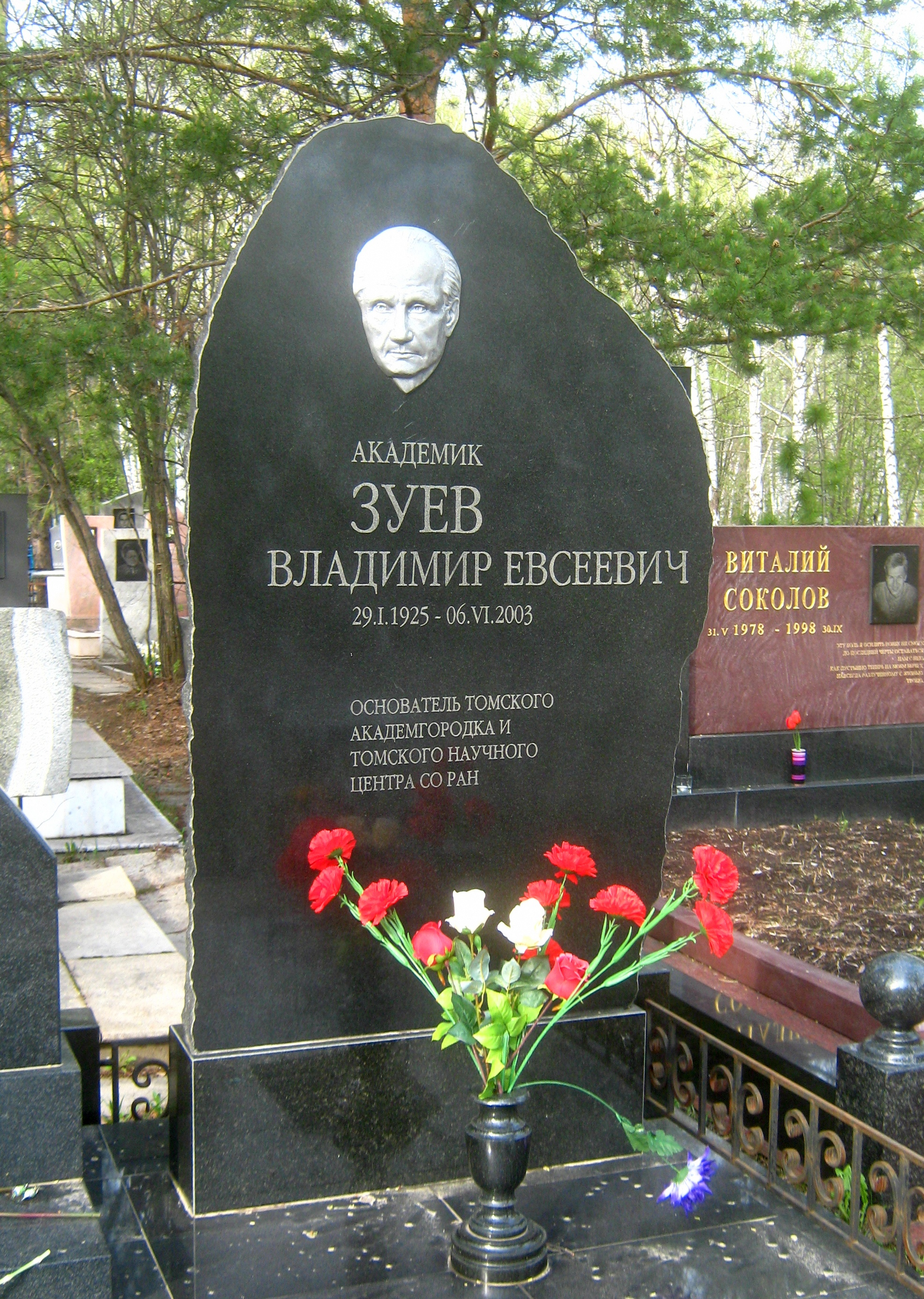 В. Е. Зуев на Бактине